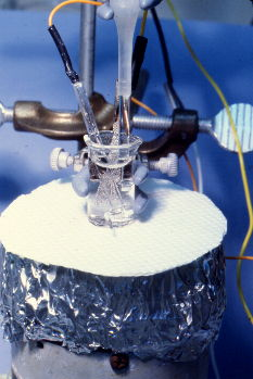 Americium in its oxidation state III in 2M Na2CO3